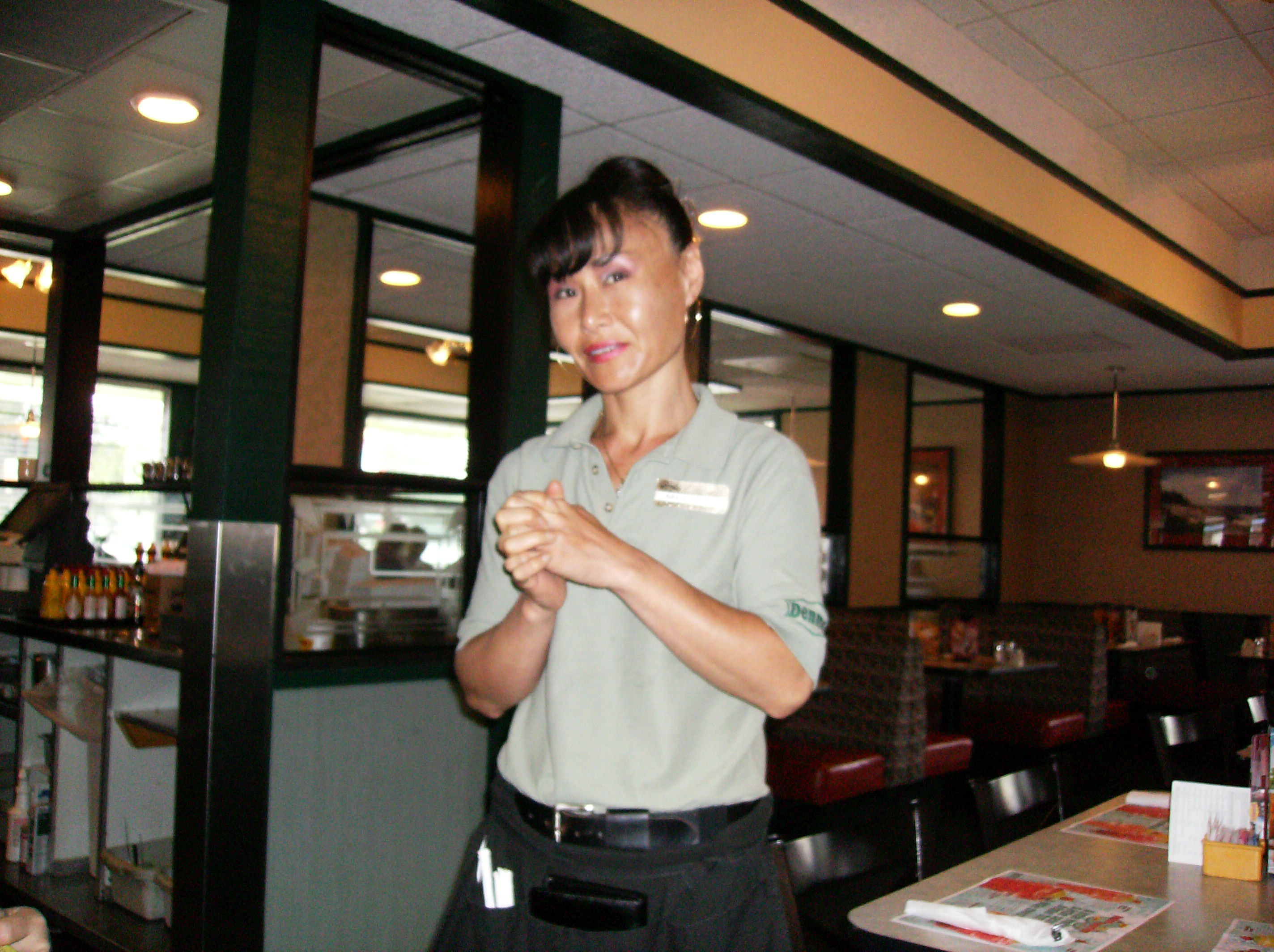 Waitress.